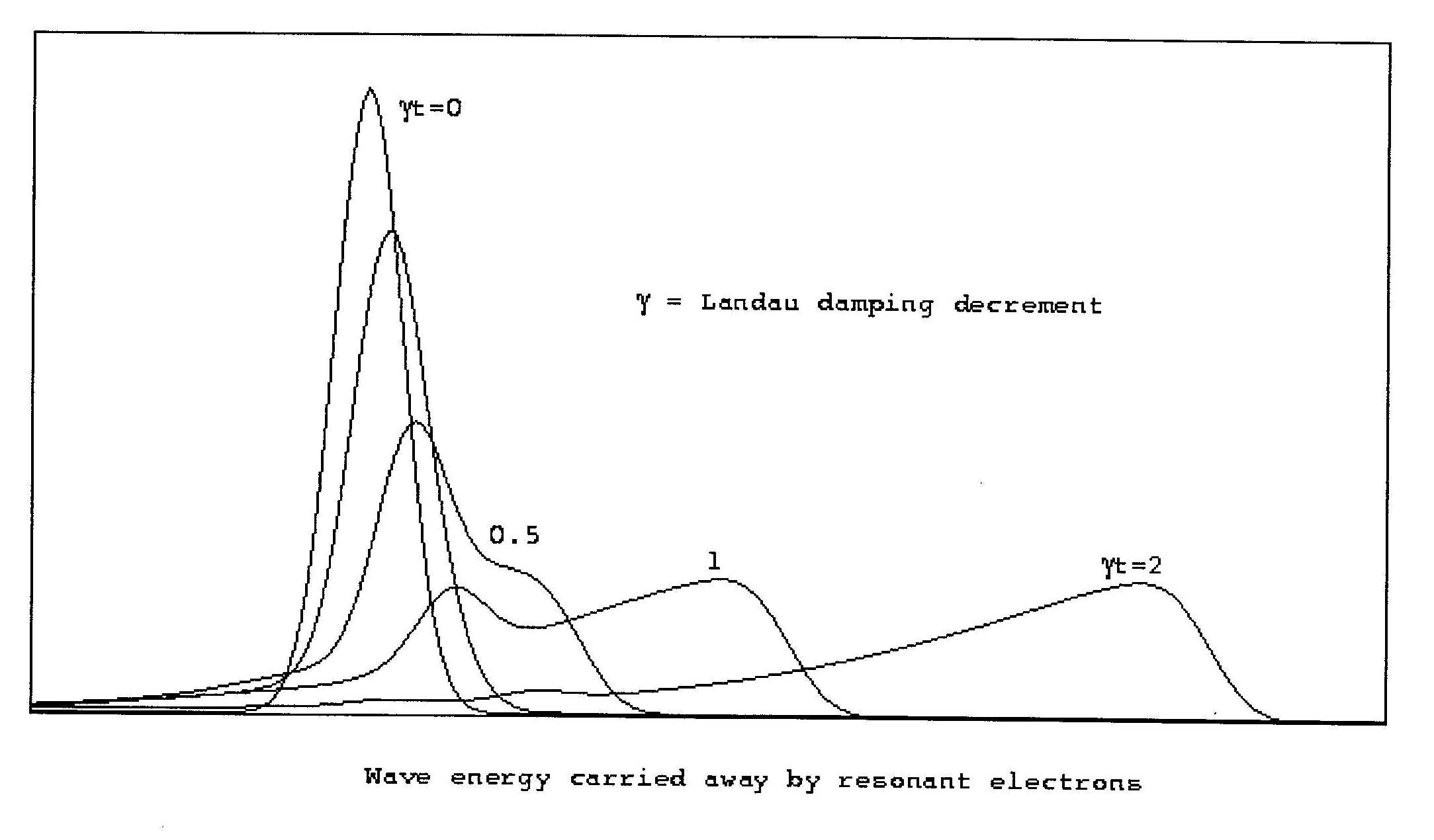 Landau damped Langmuir wave packet.